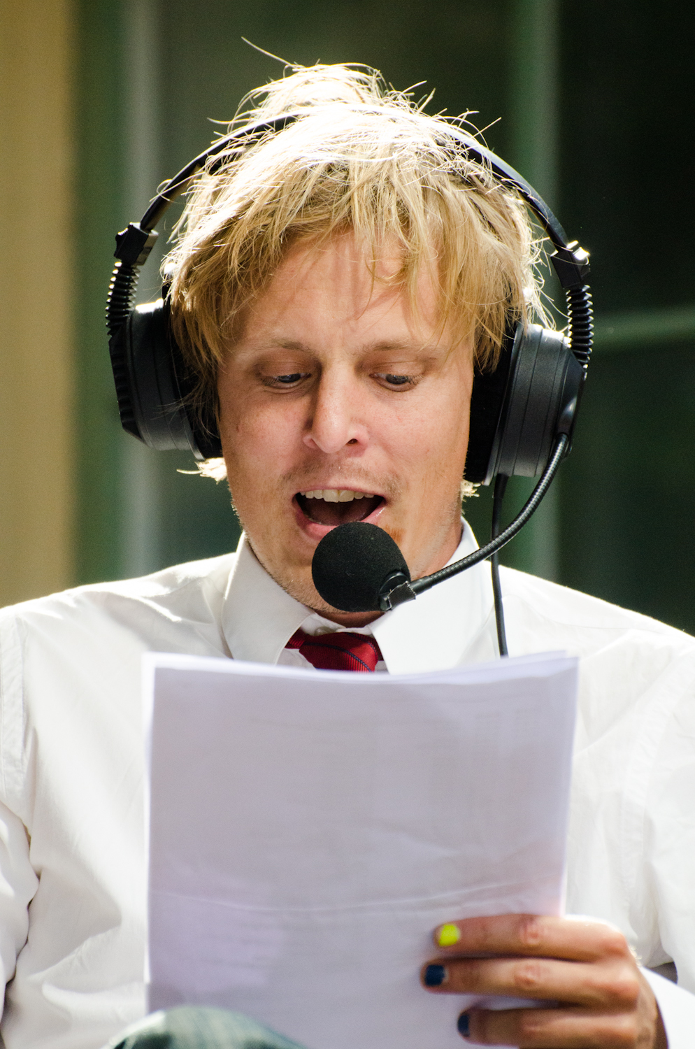 Comedian Simon Svensson hosting Swedish public radio show Tankesmedjan at Almedalen week 2011.